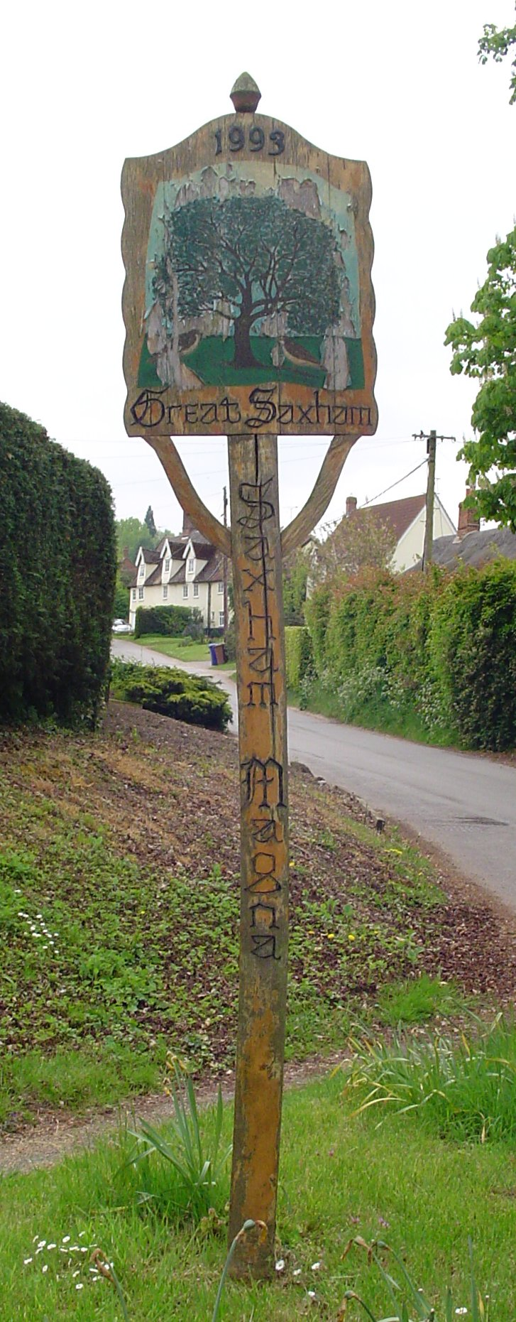 Signpost in Great Saxham